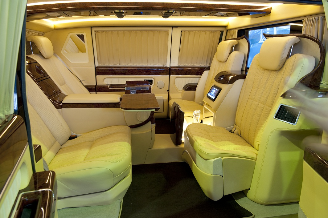 ZIL-4112R